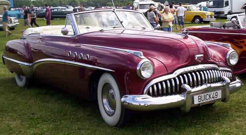 1949 Buick Roadmaster Series 70 Model 76C Convertible Coupe